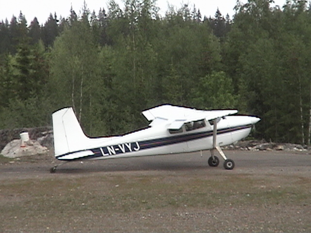 Cessna 180 LN-VYJ at Reinsvoll, Norway.